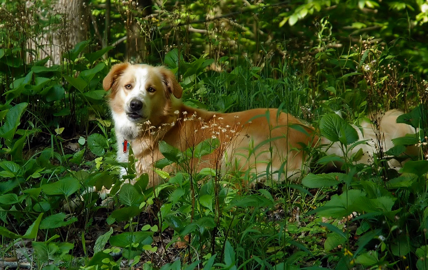 Clear Sable English Shepherd in field